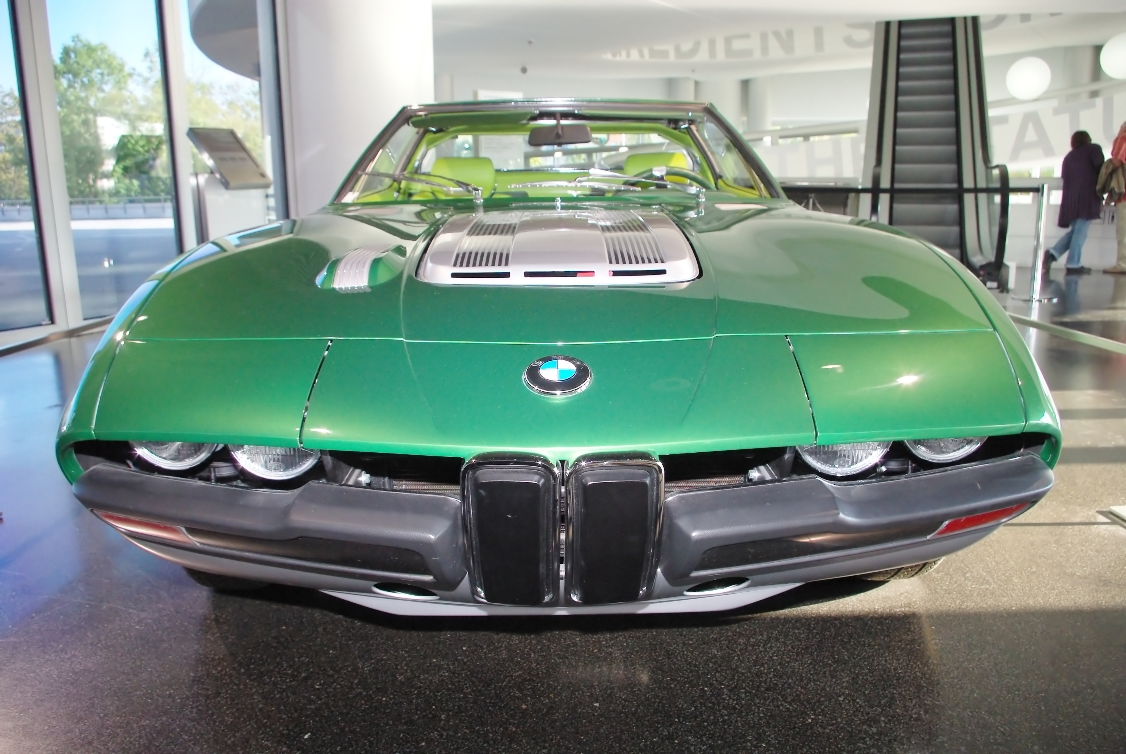 BMW's old prototype: Spicup, at the BMW Museum, Munich, Germany.